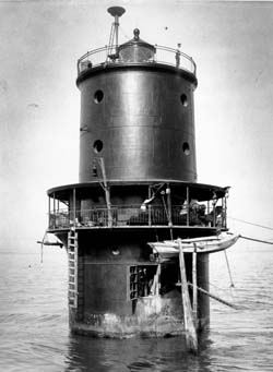 Thimble Shoals Light shortly after completion.